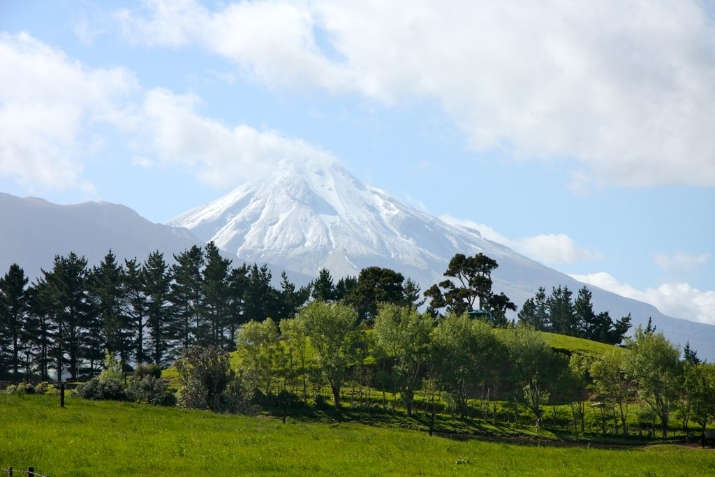 Mt Taranaki